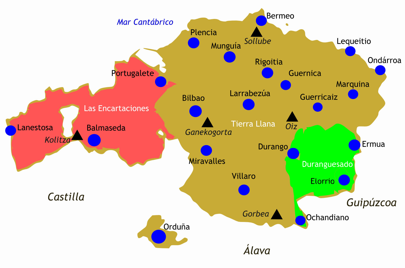 Biscay in the foral regime Brown - Land without cities Blue - Towns and city Red - Las Encartaciones Green - Duranguesado Black - Mount to call for meetings